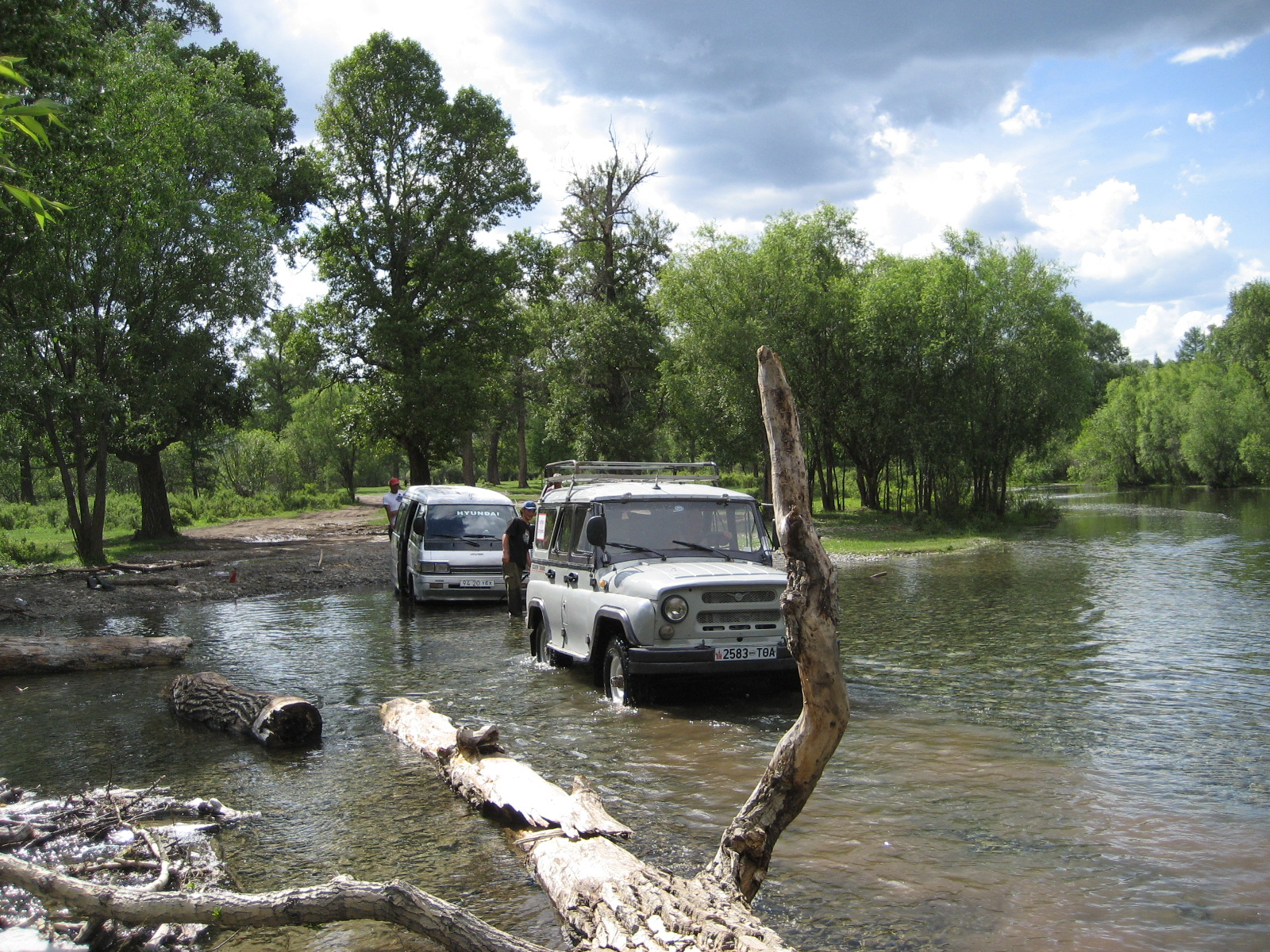 UAZ-469 towing a bus through a river in Mongolia (given the context of the image on flickr, this must be either the Terelj Gol or the Tuul Gol, in the Gorkhi-Terelj National Park).